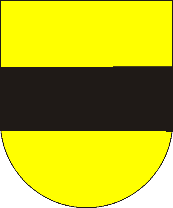 coat of arms